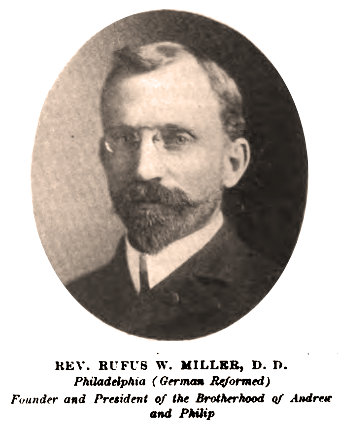 Photograph of Rev. Rufus W. Miller, founder of the Brotherhood of Andrew and Philip